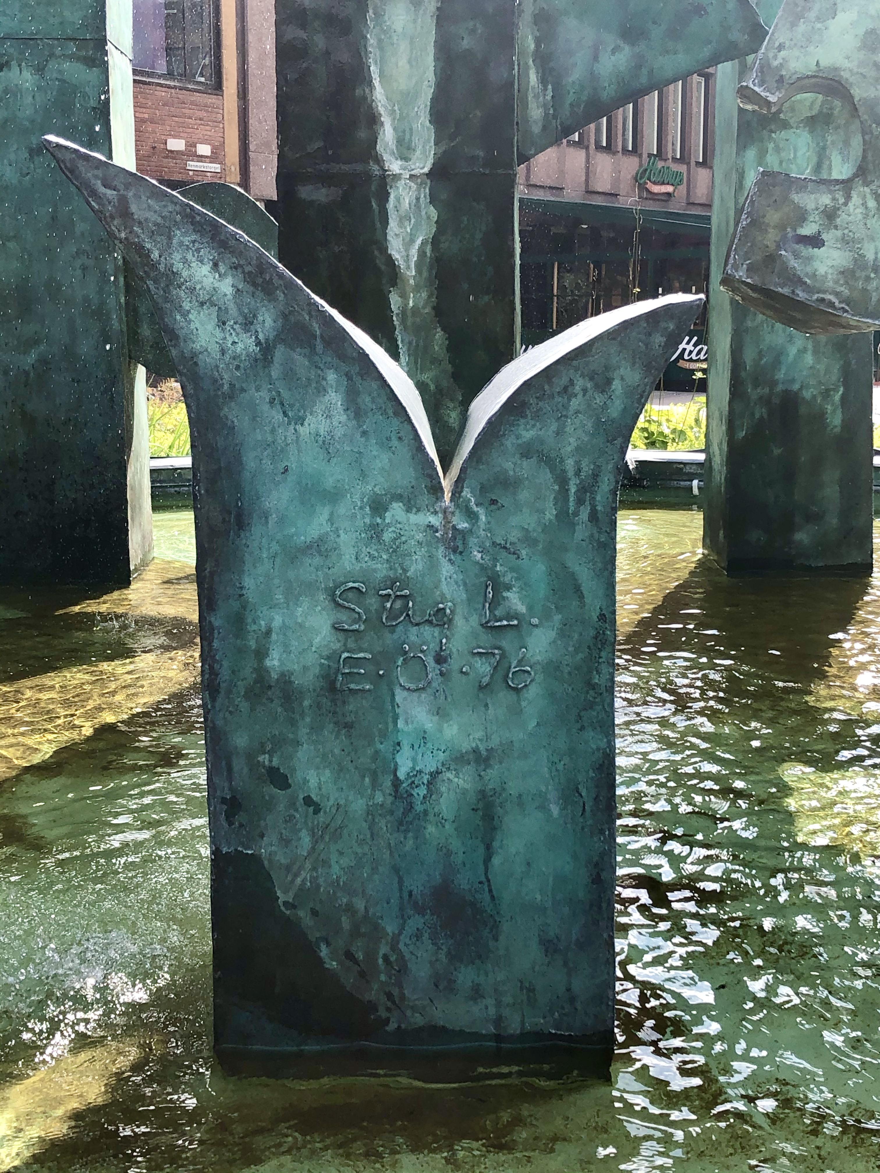 Signatures on Fontänskulptur (fountain sculpture) in Umeå, from the artists: Stig Lindberg and Eje Öberg